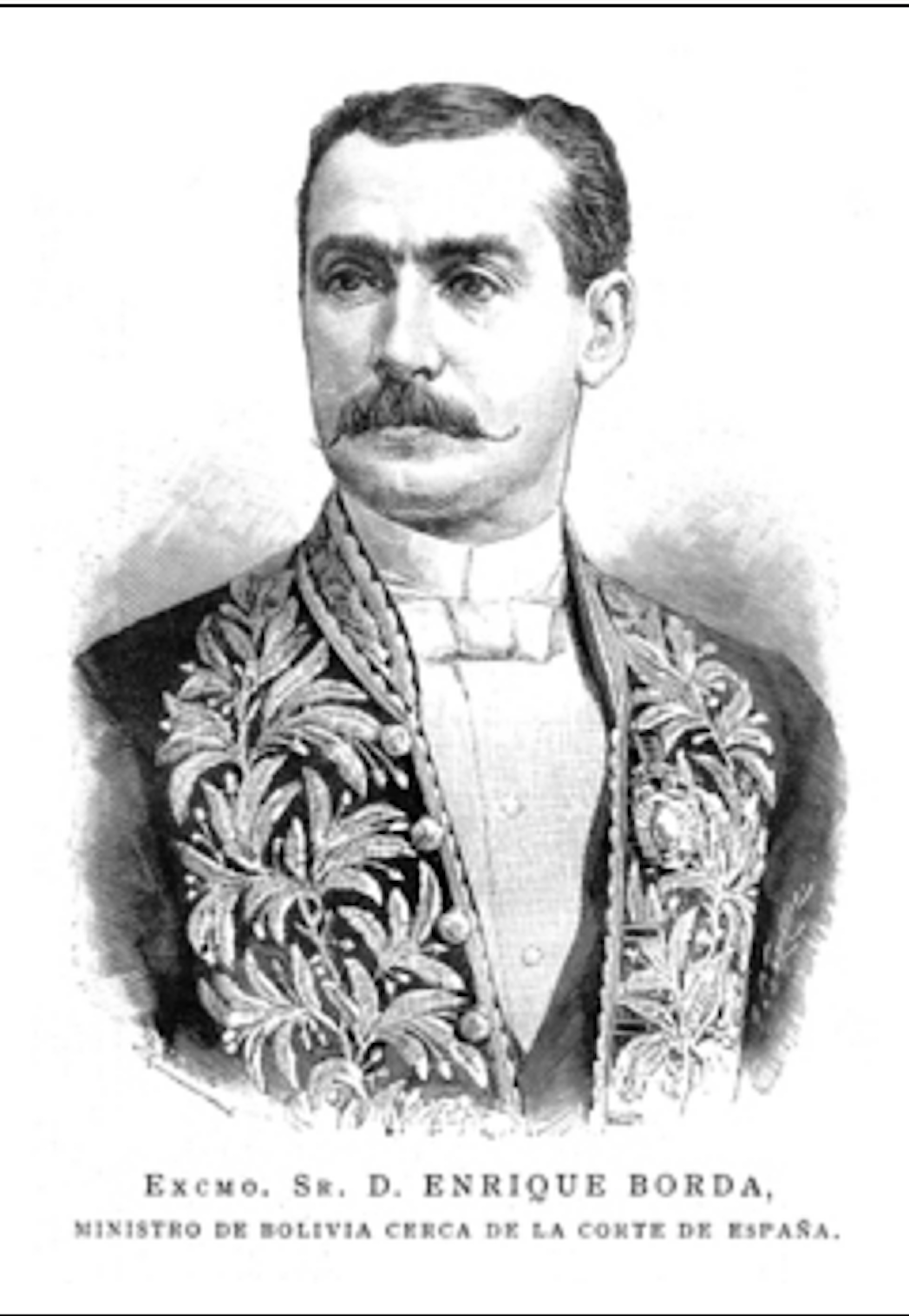 Enrique Borda, Ministro de Bolivia ante la corte de España.